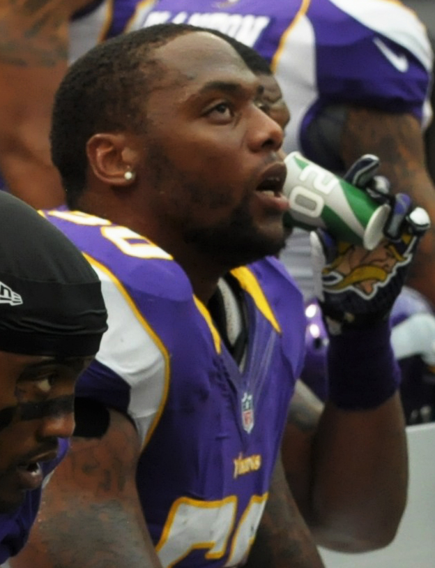 Minnesota Vikings LB Erin Henderson